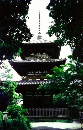 Gardens in Yokohama, Japan. The hue and saturation were tweaked to provide more lush foliage.